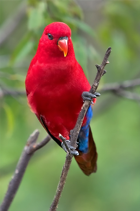 Red Lory at Jurong Bird Park, Singapore.